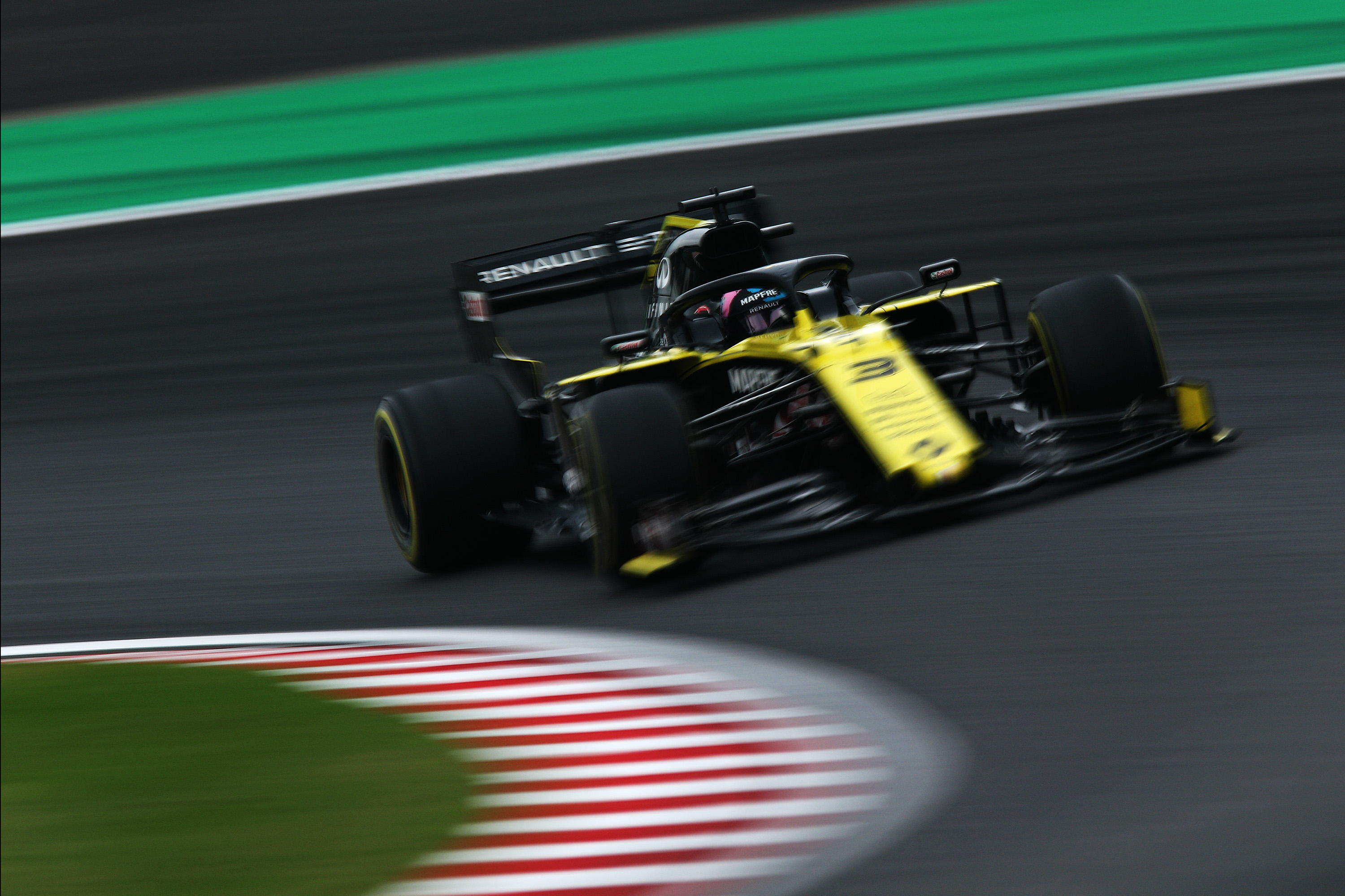 2019.10.11 F1 Rd.17 JapaneseGP FP2 Suzuka Circuit Renault F1 Team 3 Daniel Ricciardo [7D2_6746ks]